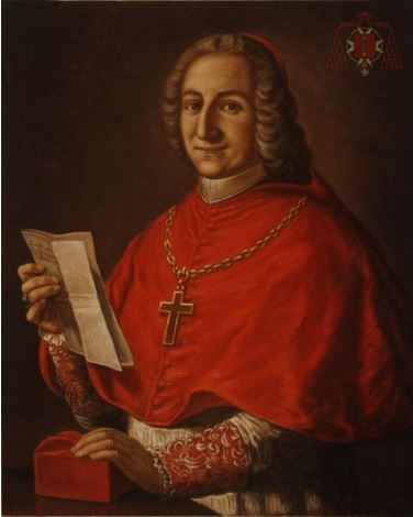 Girolamo Colonna di Sciarra, cardinal of the Roman Catholic Church